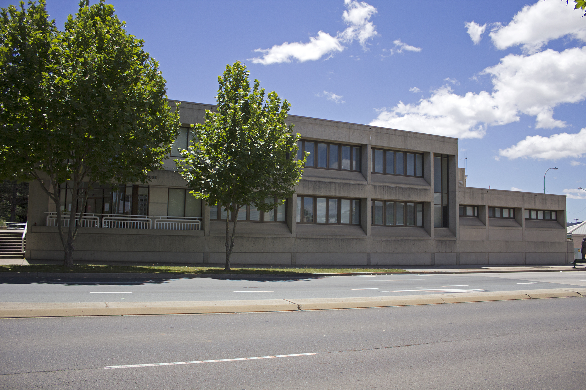 Queanbeyan Court House, designed by John Whyte (Ian) Thomson and built in 1978, viewed from the Kings Highway.